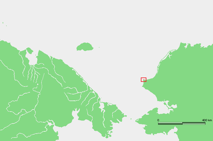 location map